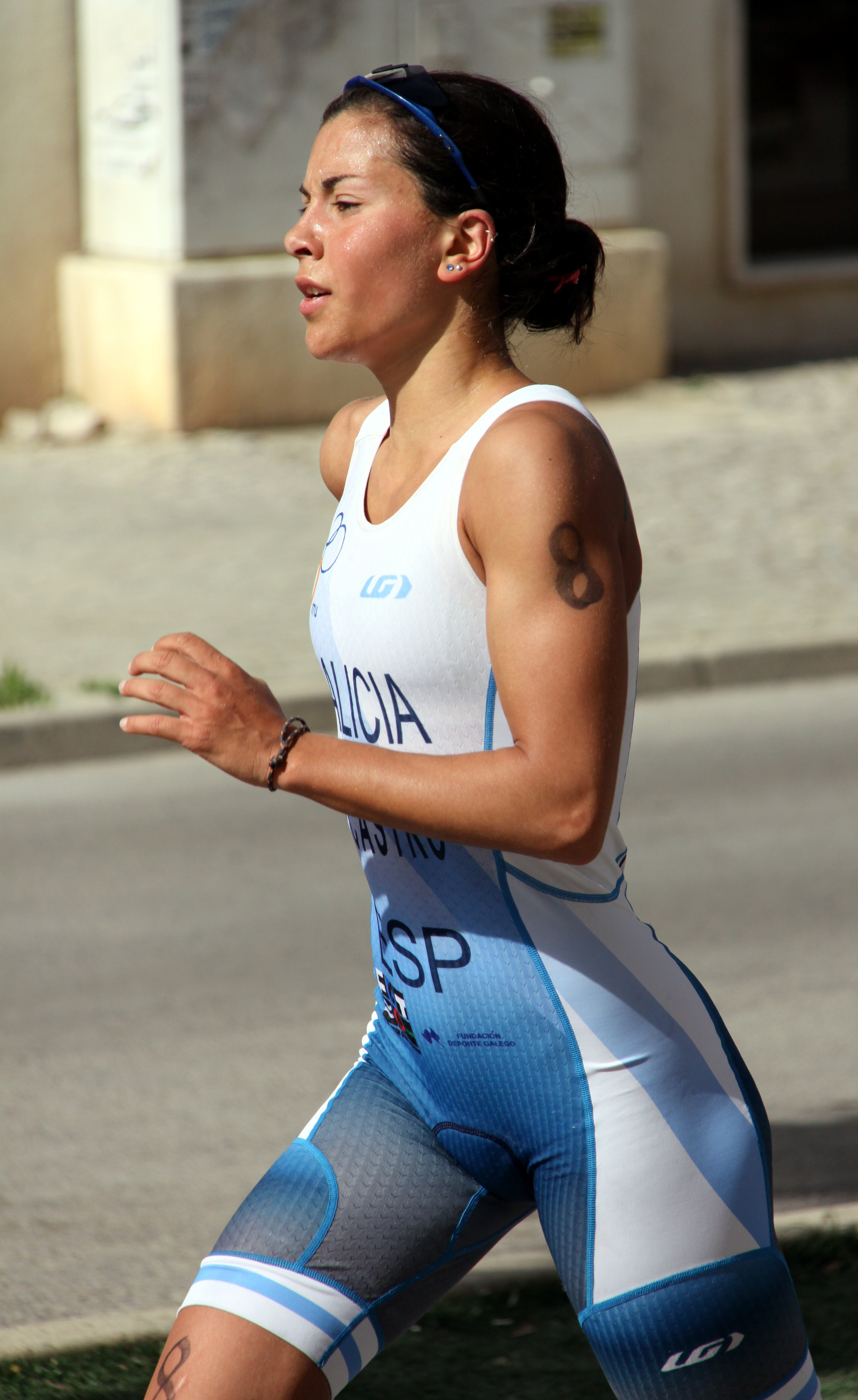 Maria Saleta Castro Triathlon European Cup Quarteira 2010